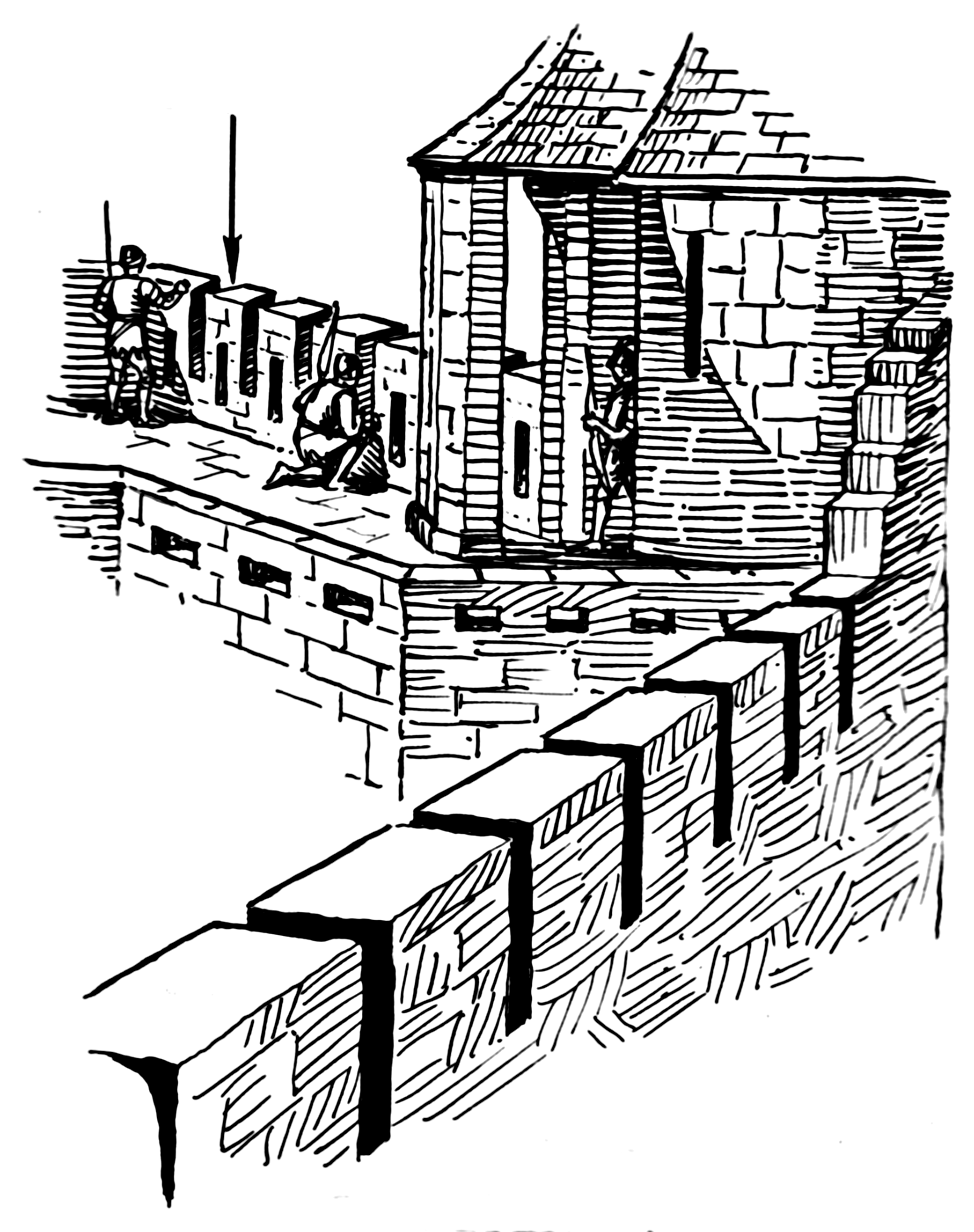 Line art drawing of parapet.